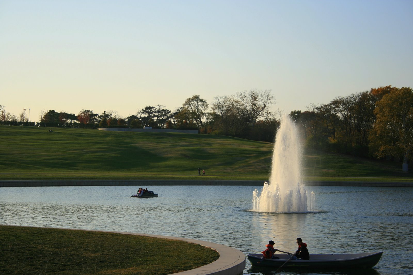 Paddle boats in Forest Park in St. Louis, Missouri.